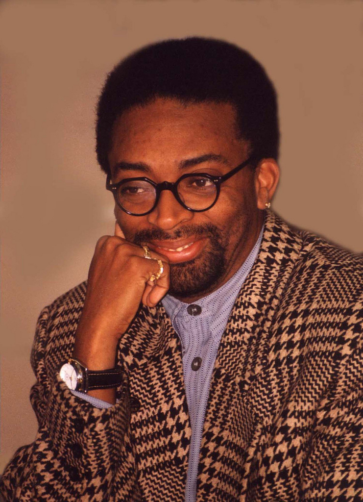 Wash D.C. 1996